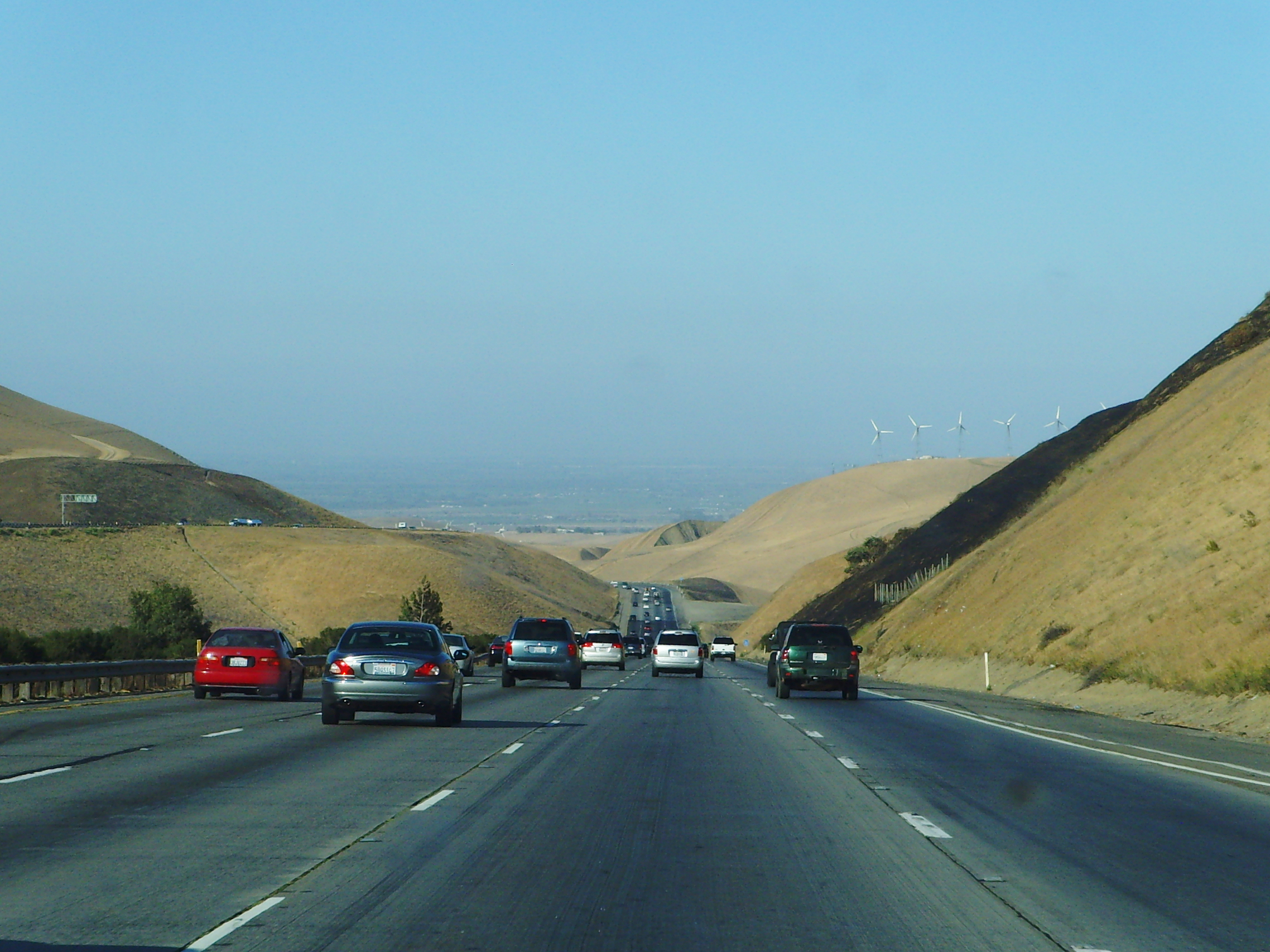 Interstate 580 near Tracy, California.